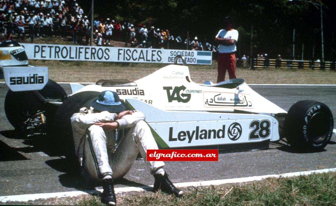 Carlos Reutemann crying after abandoning the race at the Argentine GP.